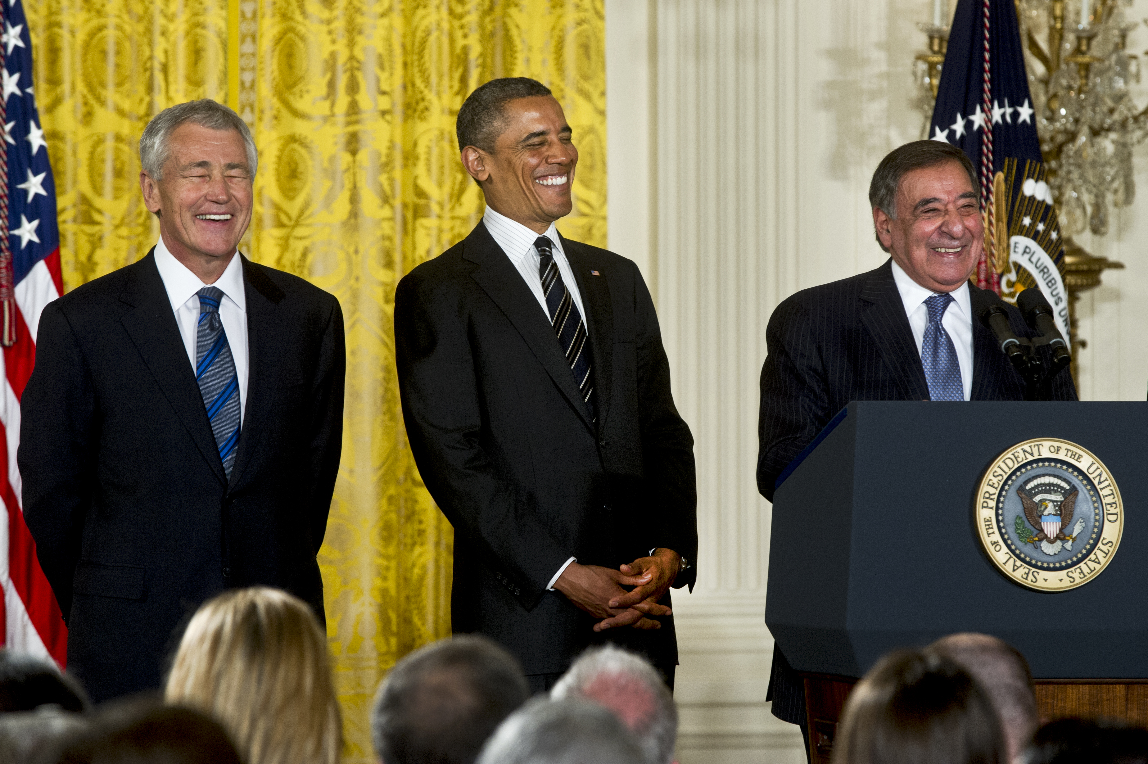 Defense Secretary Leon E. Panetta interjects a light comment at a press conference during which President Barack Obama announced his nomination of Chuck Hagel as the next defense secretary at the White House, Jan. 7, 2013. Hagel, a former U.S. senator from Nebraska, earned two Purple Hearts as an infantry squad leader during the Vietnam War.